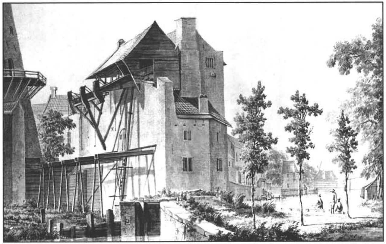 Gezicht op de Rotterdamse vuurmachine, aquarel door een onbekende kunstenaar ca. 1780